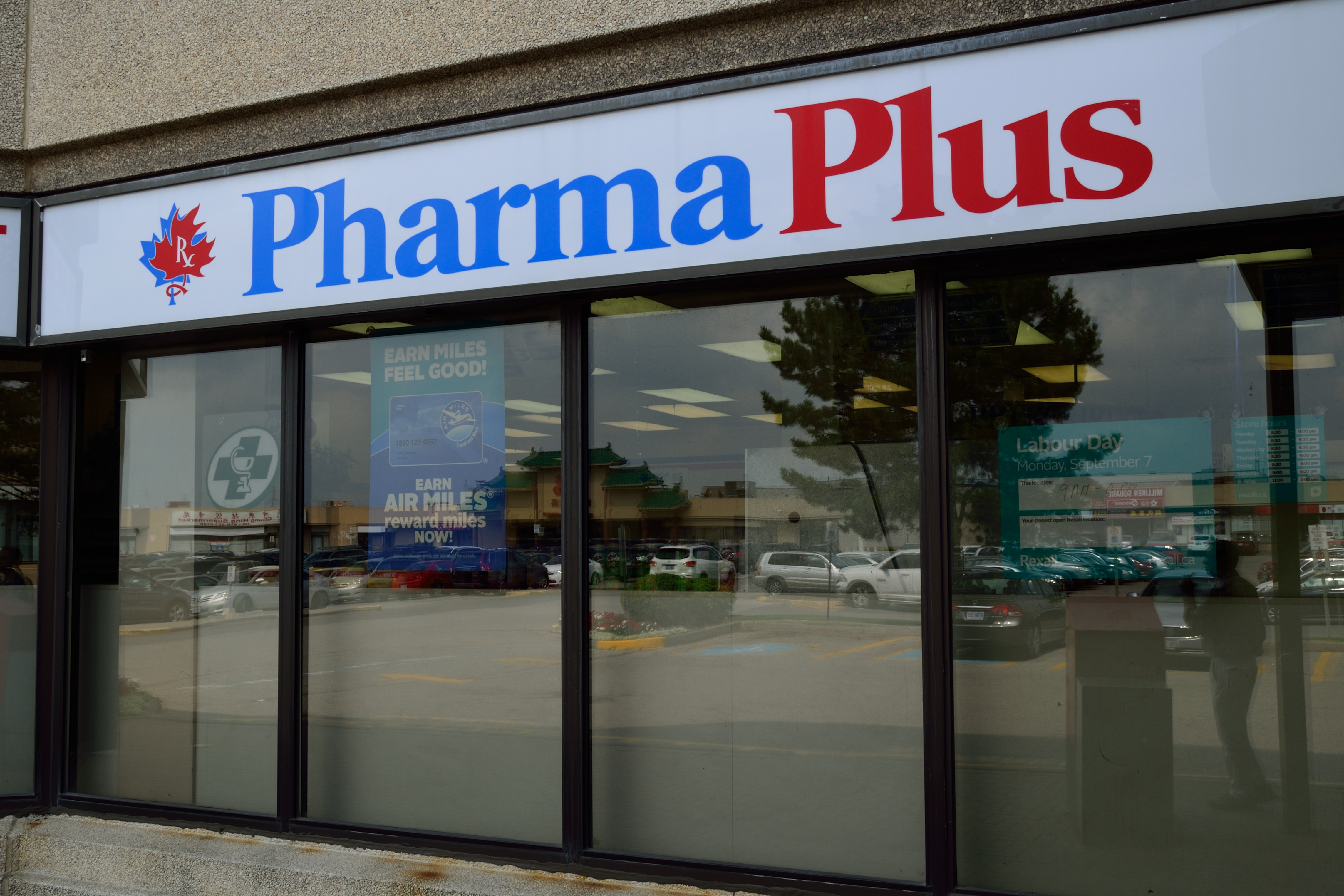 Rexall Pharma Plus - 4040 Finch Ave East